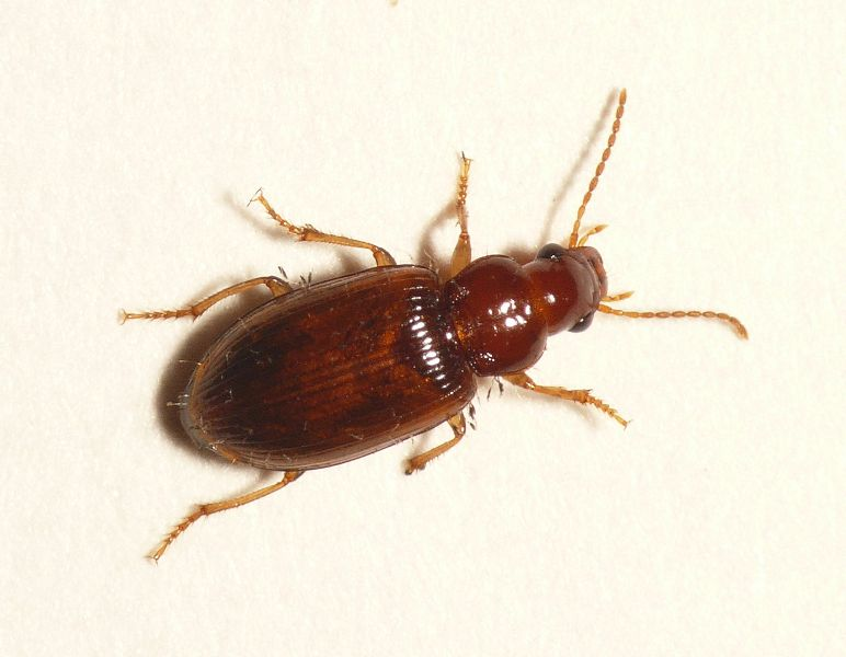 Bradycellus verbasci, location: The Netherlands - Rhenen - Blauwe Kamer - Gelderland